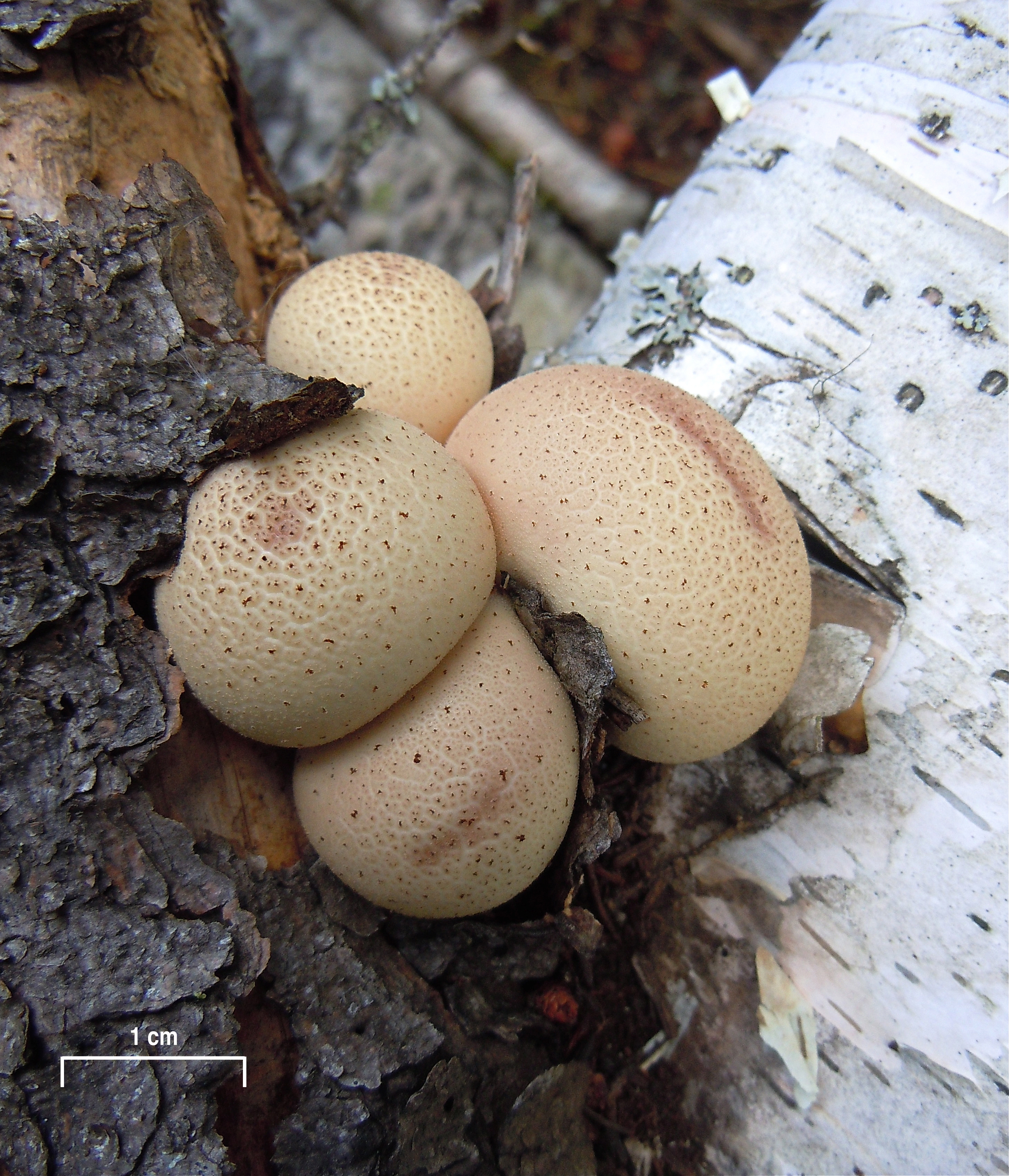 Fruit bodies of the puffball mushroom Lycoperdon pyriforme growing on a decaying pine log. Specimens photographed near La Ronge, Saskatchewan, Canada. Version with 1 cm scale marker added.